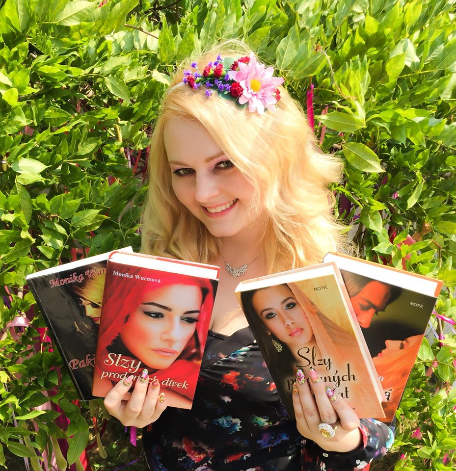 Monika Wurm